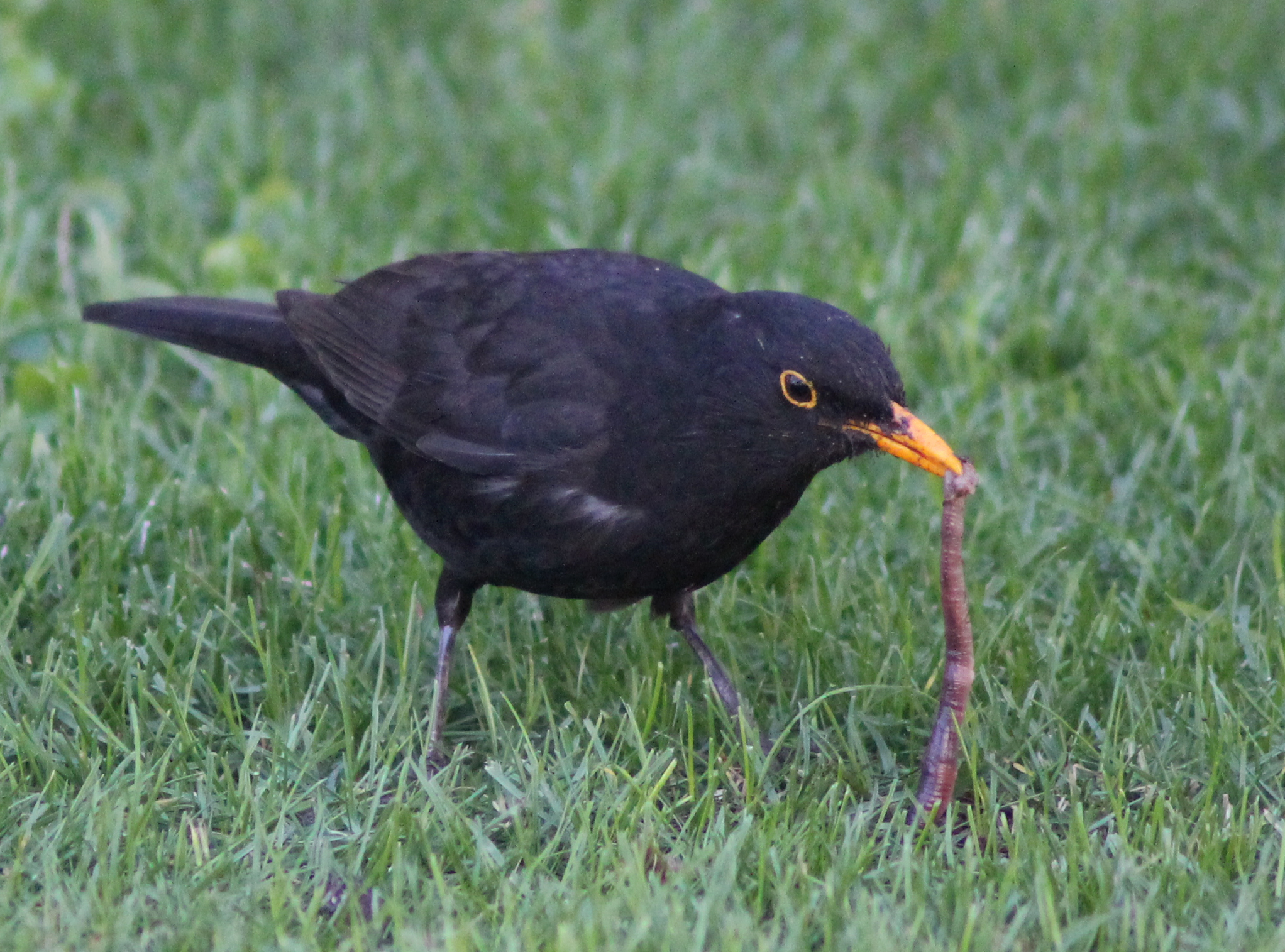 A male blackbird (Turdus merula) eating an earthworm in Madrid (Spain).